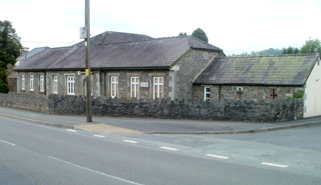 NE corner of Llandovery Hospital